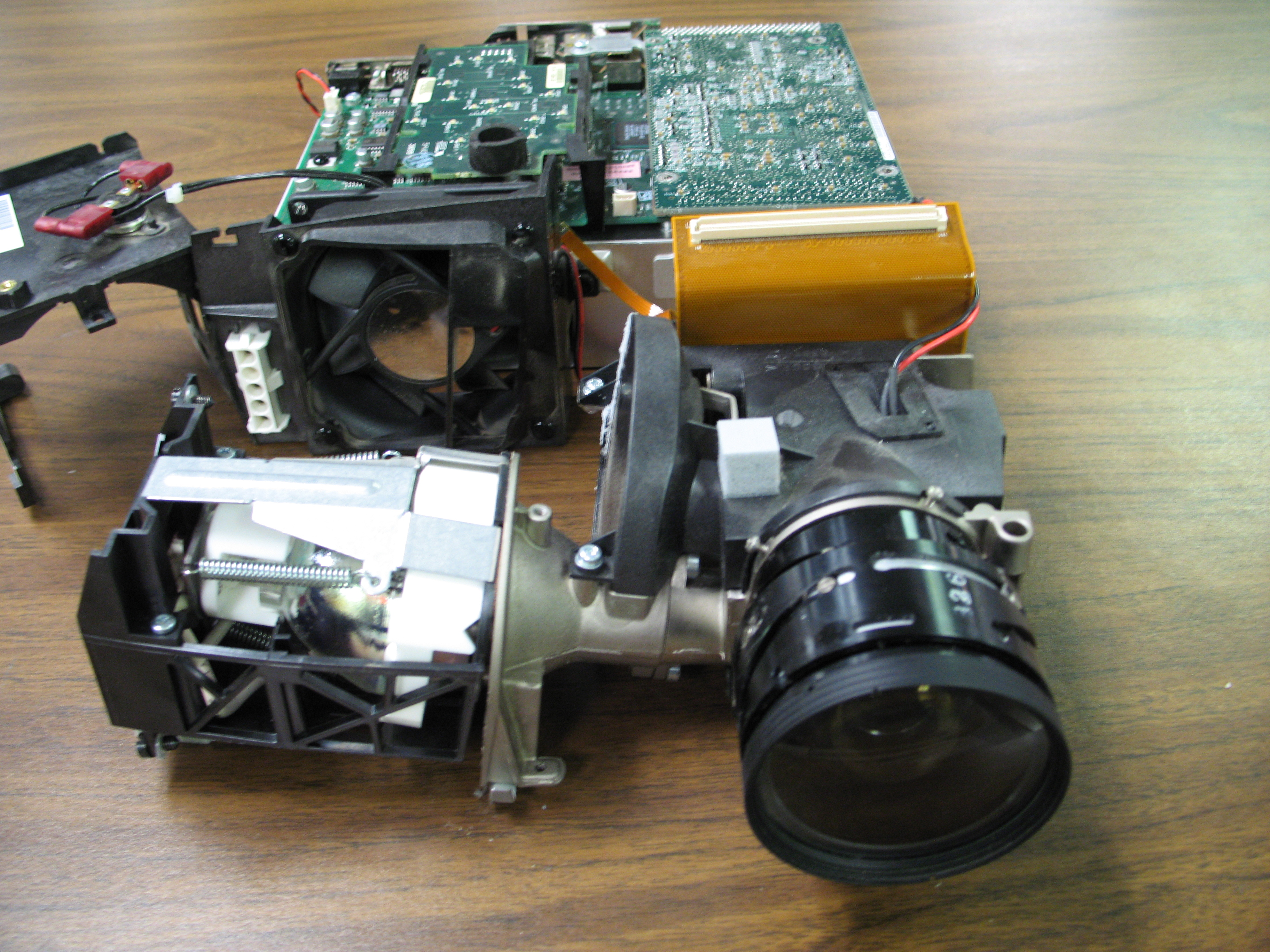 Internal components of an old 1998 InFocus LP425z single-chip DLP projector, with a 4-segment color wheel.Front section shows high-pressure metal halide lamp, color wheel (under round shroud), rear optics assembly containing the DMD, and zoom/focus lens.In the rear, the bottom portion is the power supply for the lamp and electronics, the large circuit board is the video signal input and processing, the small board on top-left is the user interface for the menu buttons, and the small board on the top-right is the interface to the DMD and color wheel. Off to the left is the lamp cage and temperature sensor.